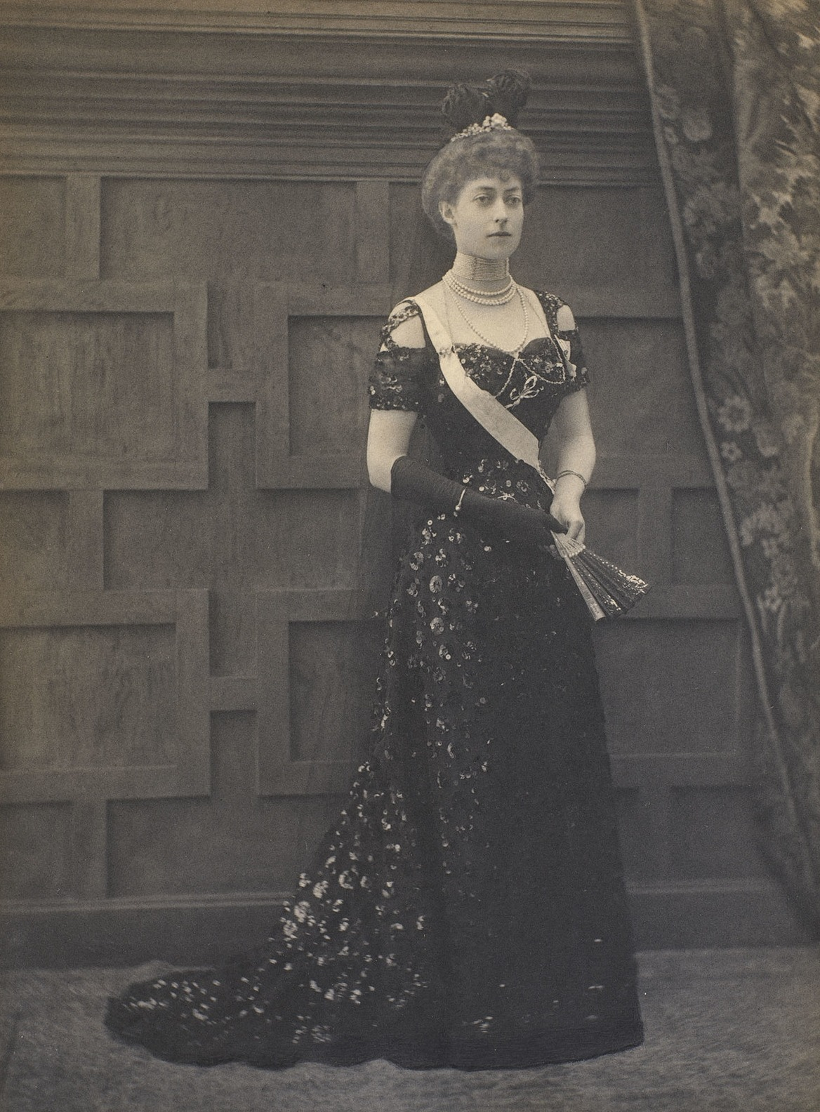 Princess Victoria of the United Kingdom (1868-1935)